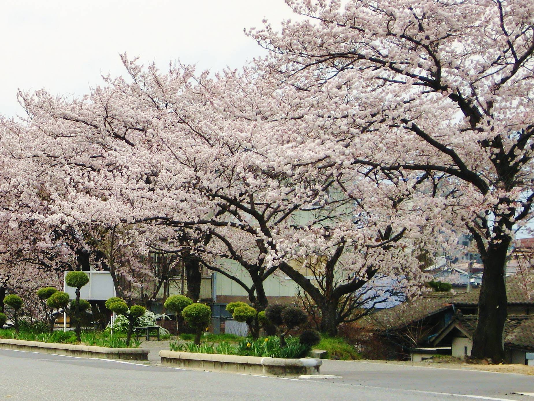 Susuki River cherry trees.